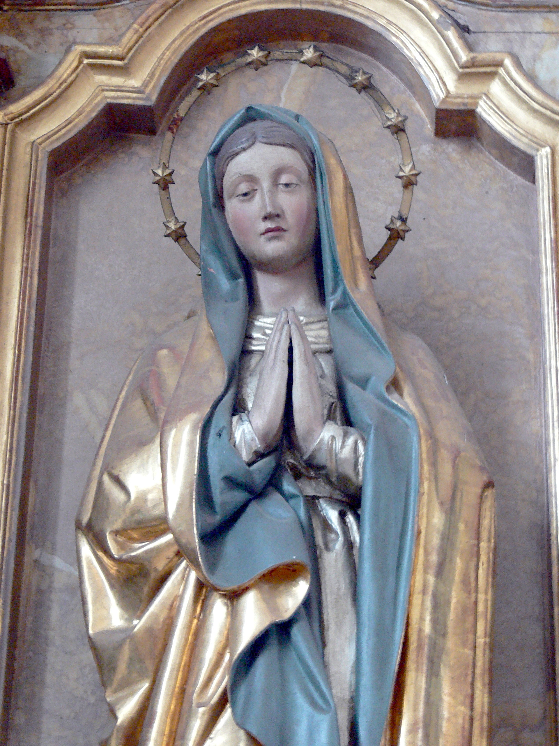 Parish church St.Ulrich in Ulrichsberg. Statue of Virgin Mary ( 19th century ) on Virgin-Mary-Altar